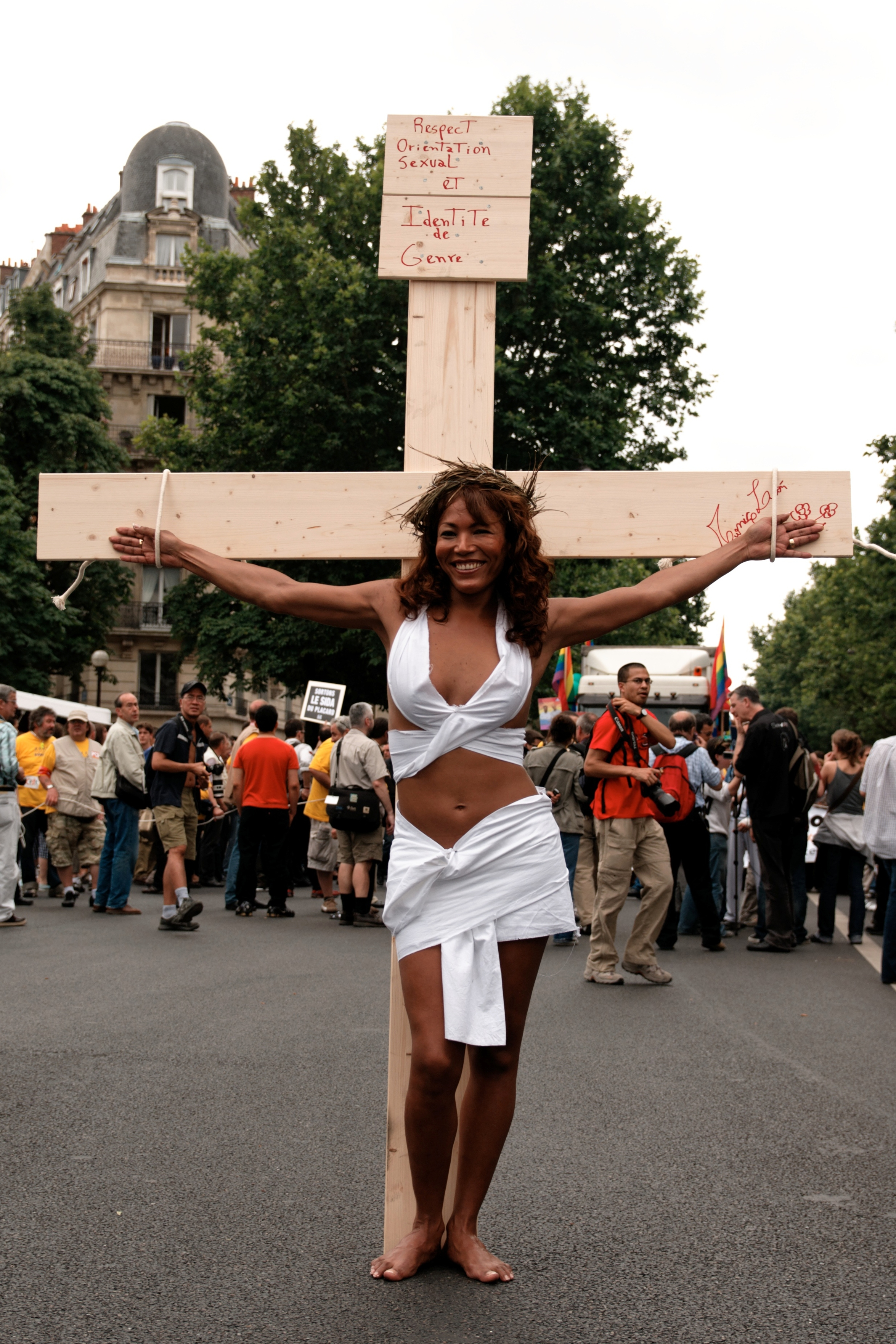 Argentinian transgender personality Monica León as the Christ (the wooden panel reads: “respect orientation sexual et identité de genre”) at the 2008 Gay Pride in Paris.